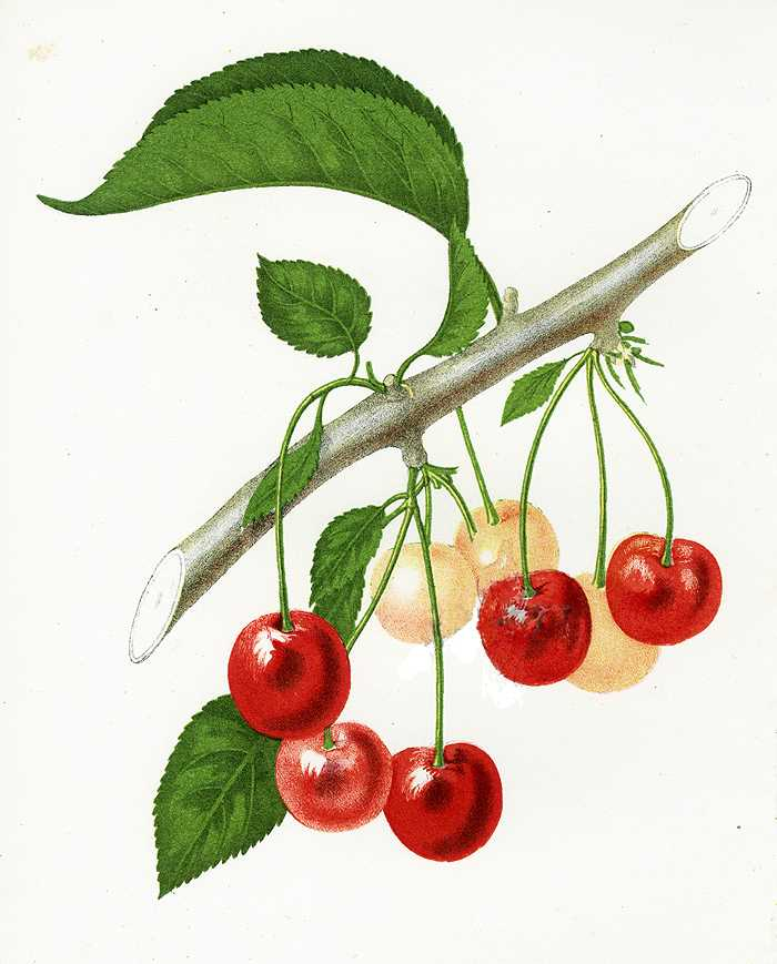 C.M. Hovey, Fruits of America Prints 1852 Hovey, Charles Mason 1810 - 1887 , a nurseryman and seed merchant